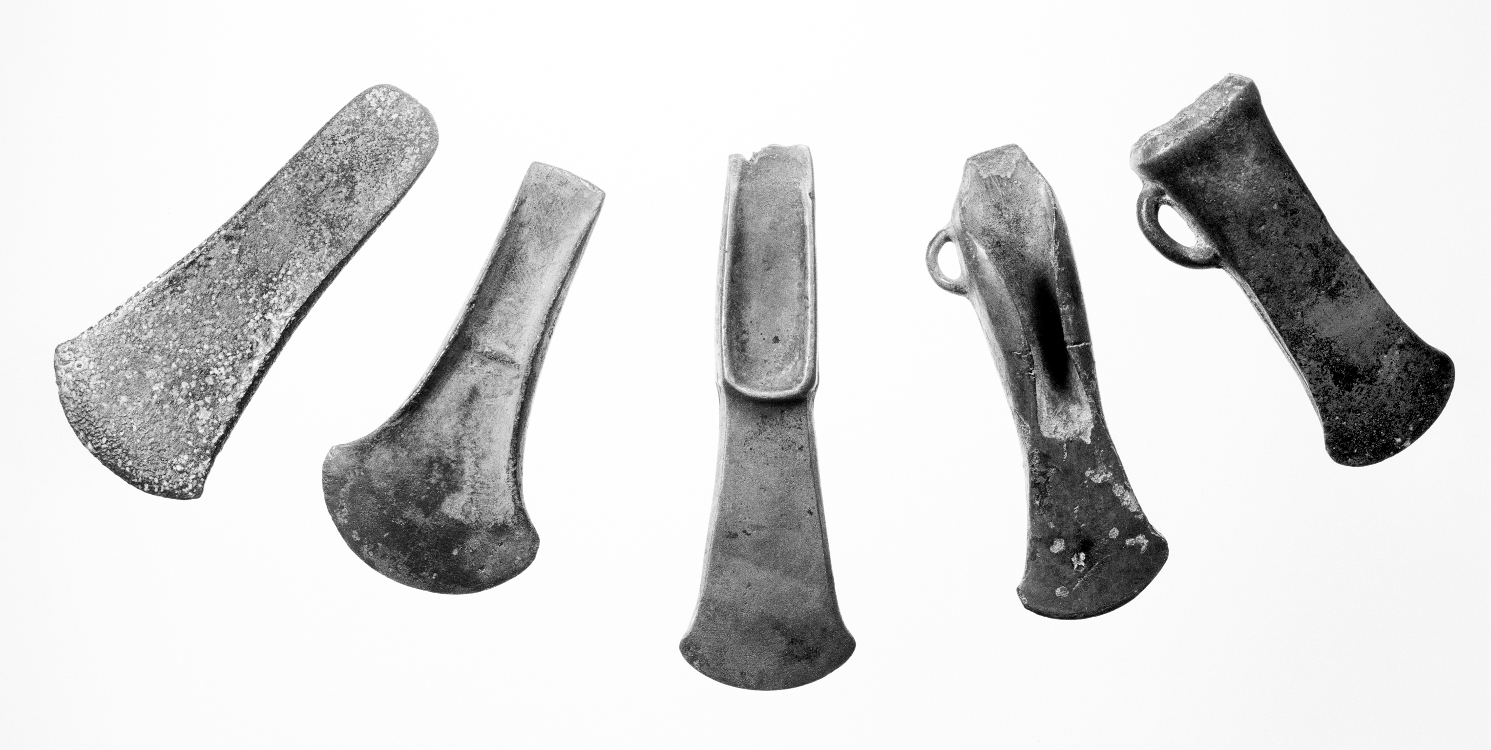 Bronze Age axes, with from left to right a flat axe from the Early Bronze Age, a flanged, a palstave and a wringed axe from the Middle Bronze Age and a socketed axe from the Late Bronze Age